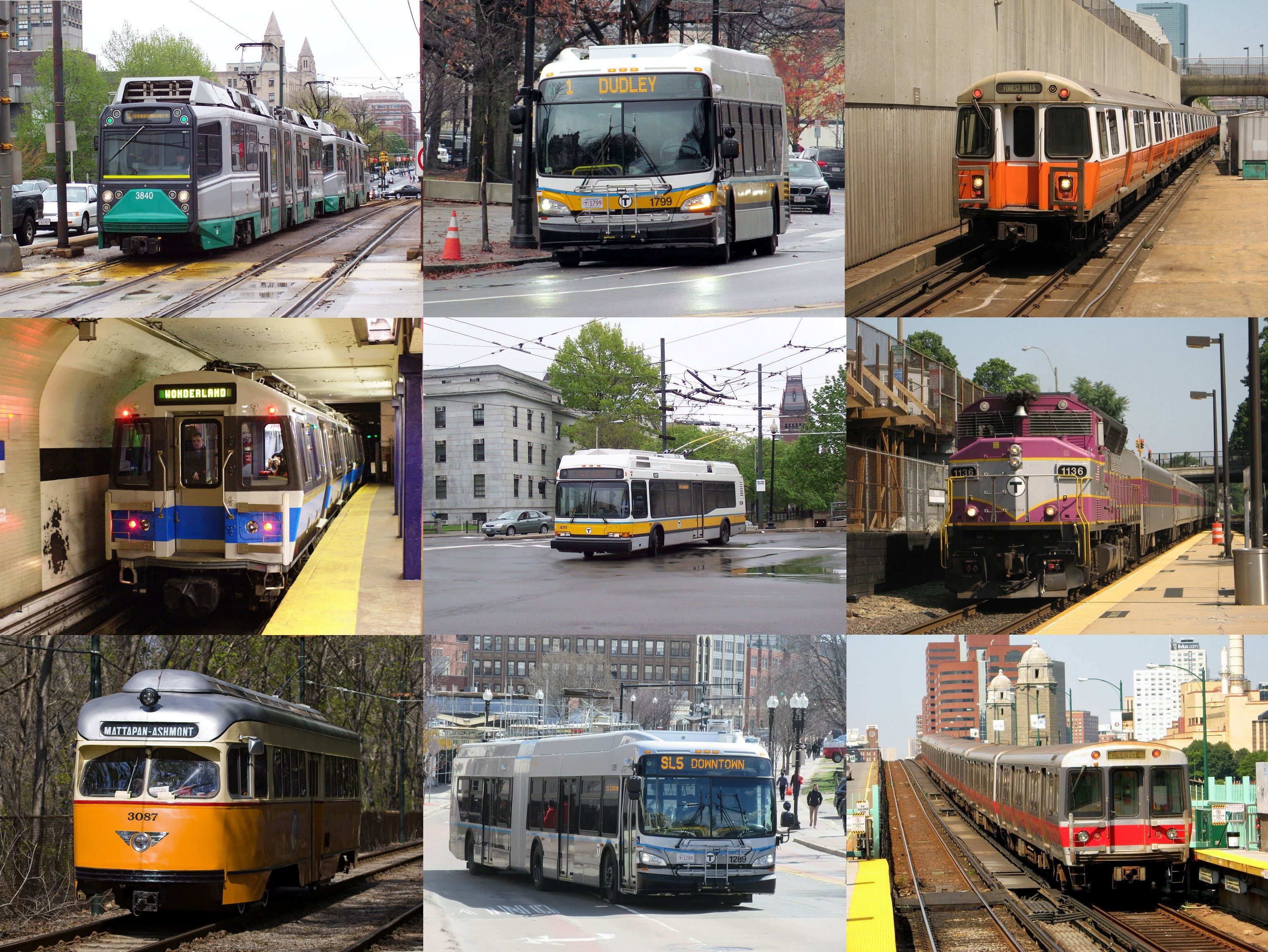 Examples of all MBTA services except for MBTA Boat. This has been designed primarily for the infobox at the top of the Massachusetts Bay Transportation Authority page on Wikipedia, a topic of public interest. Top row: Left: Green Line Breda Type 8 LRV #3840 is stopped for a red light at Commonwealth Avenue and Carlton Street on the B. Center: NABI 40LFW CNG #2176 departs the Ruggles Station on the 47 line. Right: Orange Line Hawker Siddeley #12 Main Line train led by #01240 enters Ruggles Station. Center row Left: The first Blue Line #5 East Boston train in revenue service at Government Center Center: Neoplan AN440LF trackless trolley #4111 exits the Harvard Tunnel on the 71. Right: EMD GP40MC #1136 pulls Train 465 into Porter Station. Bottom row Left: St. Louis Car PCC car 3087 on the Ashmont-Mattapan Line. Center: Neoplan AN460LF CNG #1003 operates through Roxbury on the Washington Street line. Right: #3 Red Line train leaves Charles/MGH over the Longfellow Bridge.